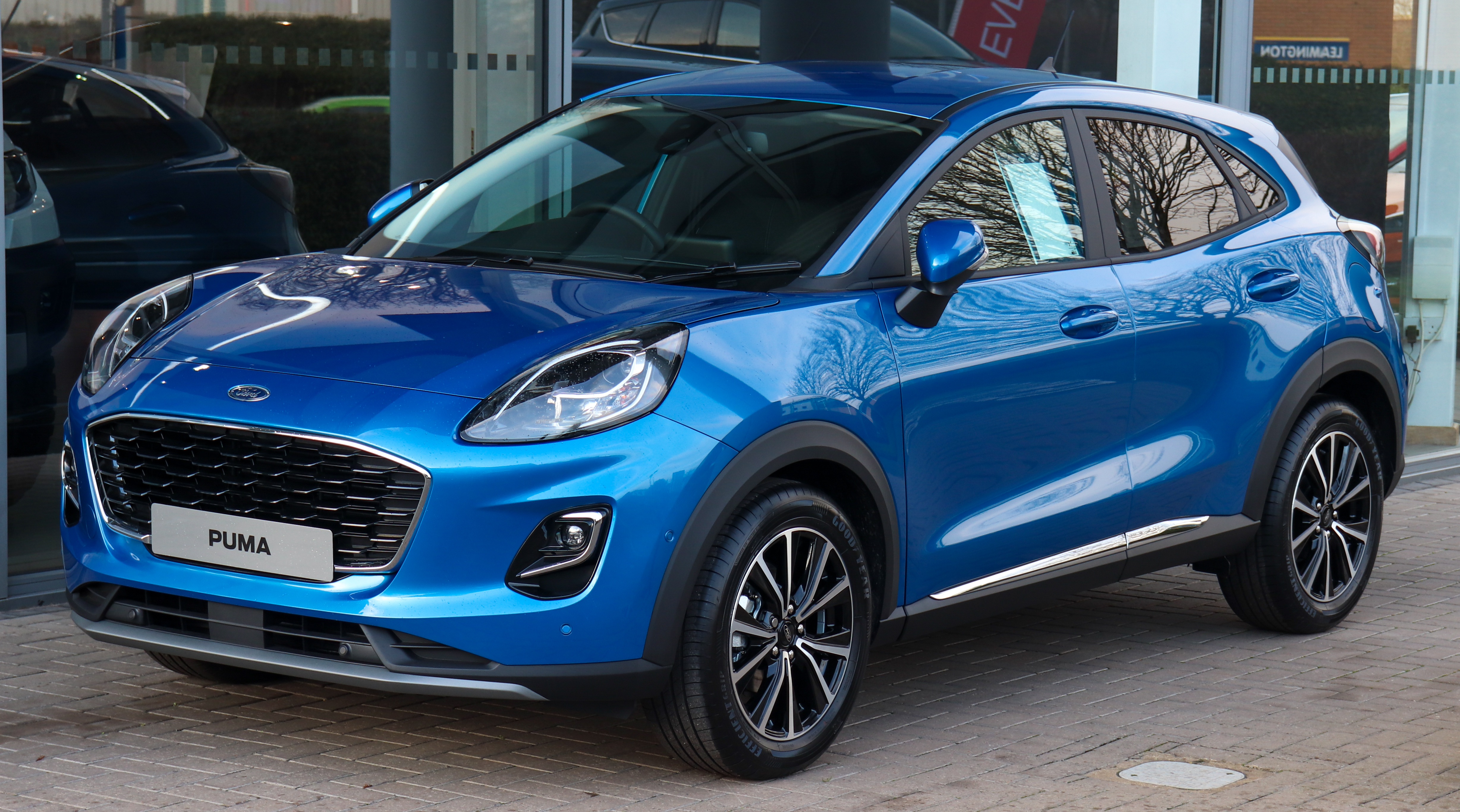 2020 Ford Puma Titanium EcoBoost Hybrid 1.0 Front Taken in Leamington Spa